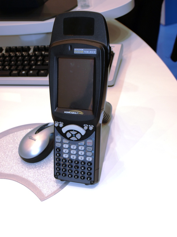 Reader for RFID, barcode & Data Matrix Code